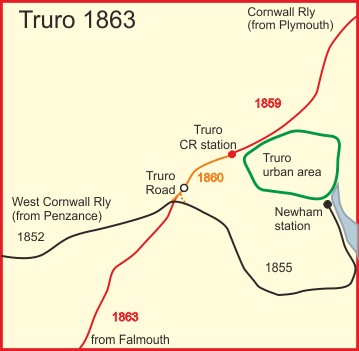 Diagram of rail network in Truro, England in 1863